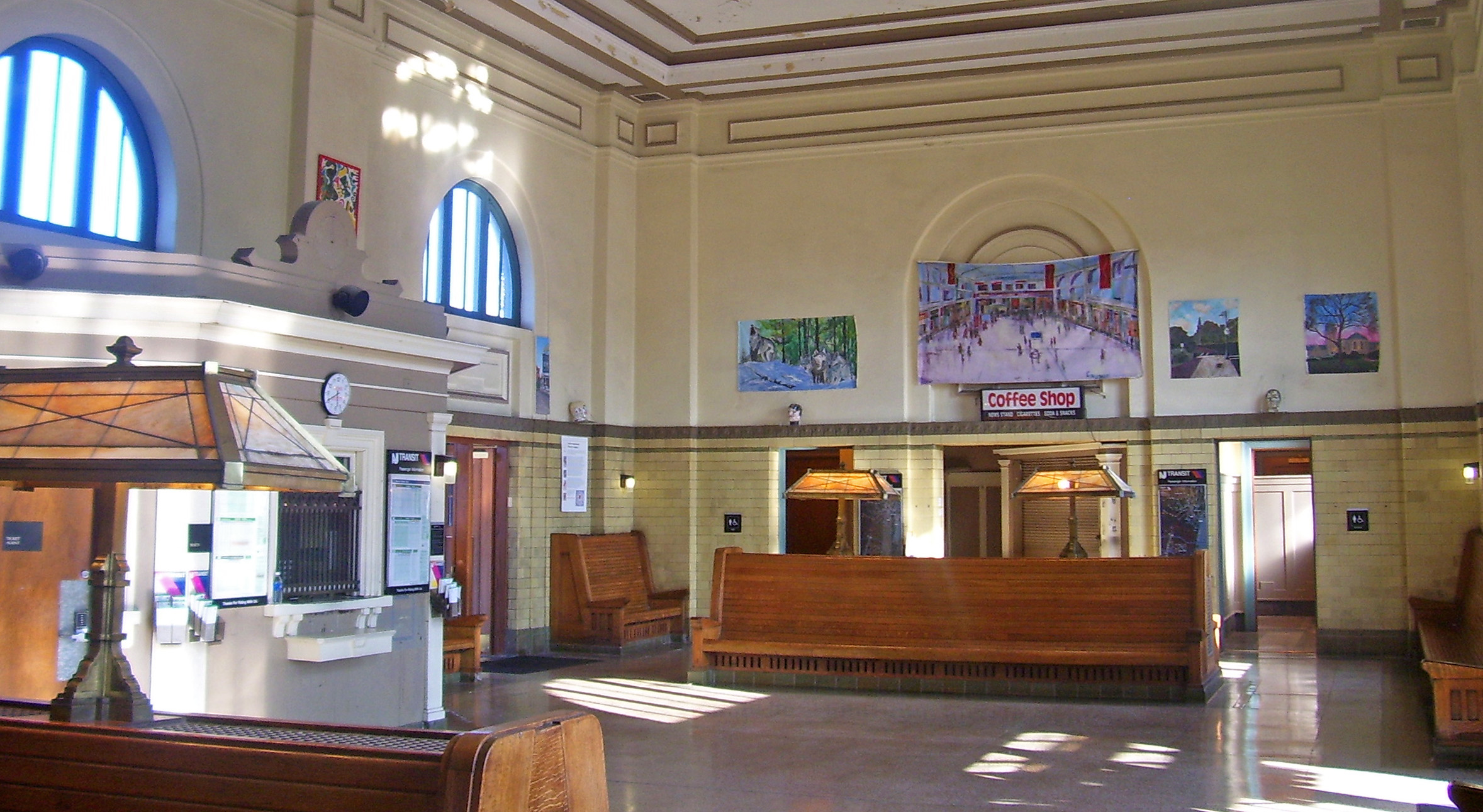 Interior of train station in Morristown. Site of climactic scene in video for Cyndi Lauper's "Time After Time".